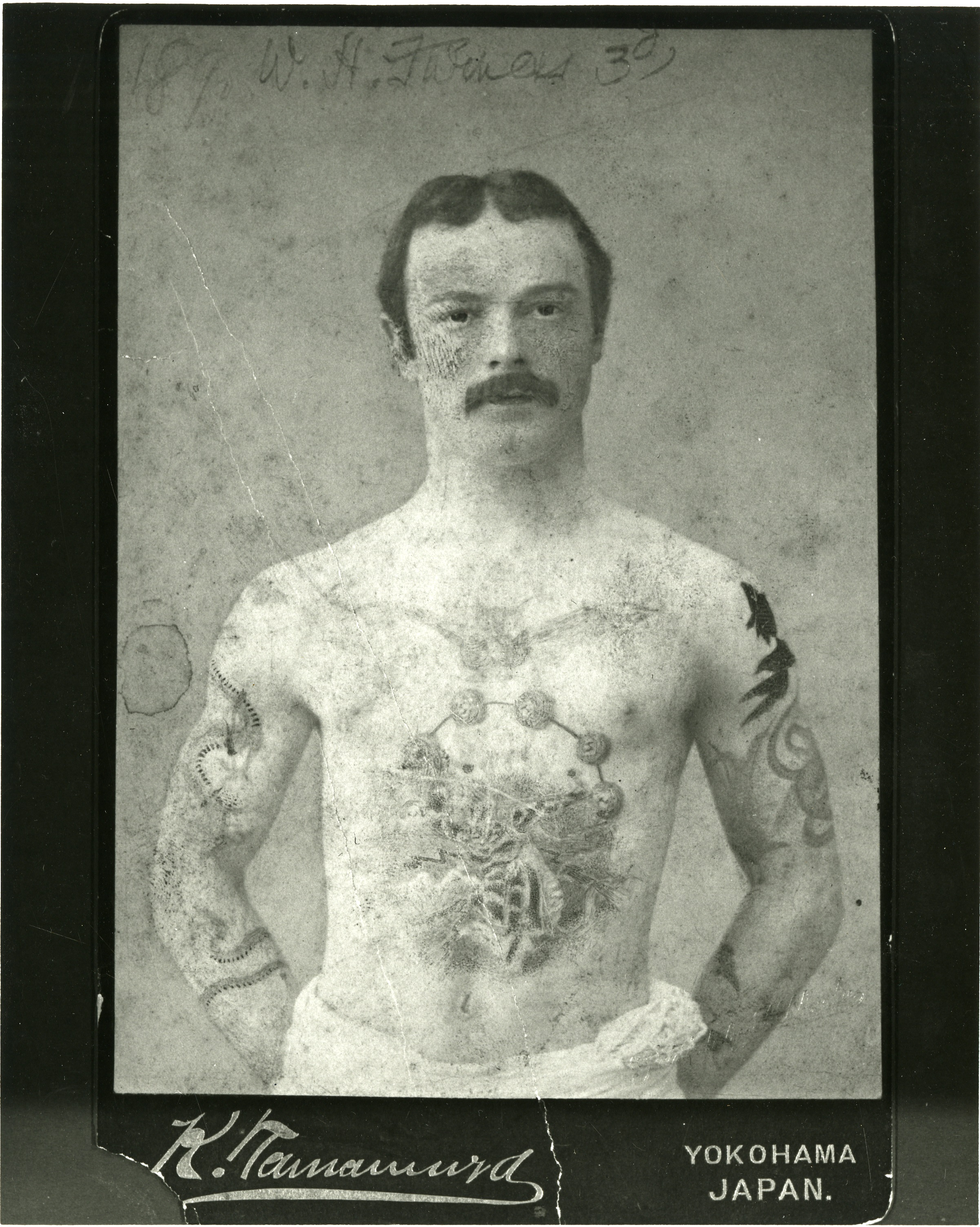 William Henry Furness III with tattoos Photo from 1890s in Yokohama, Japan